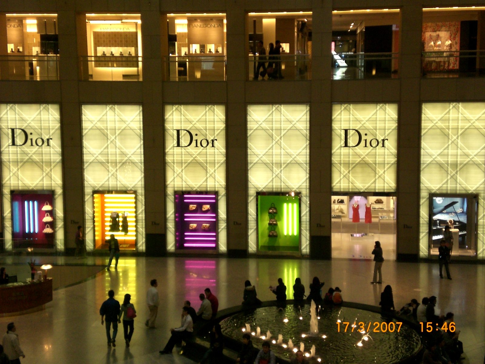 克里斯汀·迪奧（Christian Dior）shop in the Landmark, Central, Hong Kong, 置地廣場. Photo created by me.